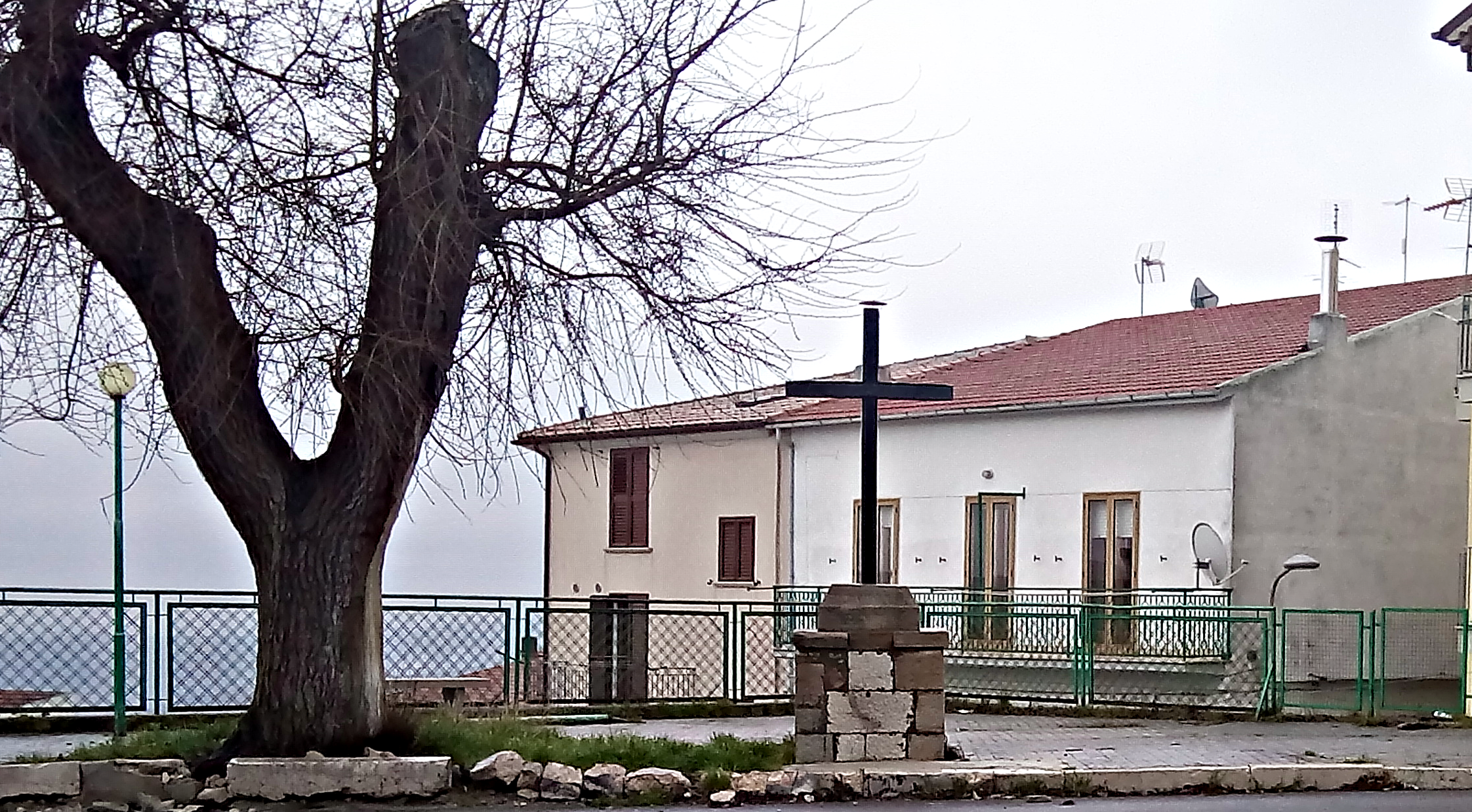 iron cross situated in front of Angioina Tower in Colletorto, Italy